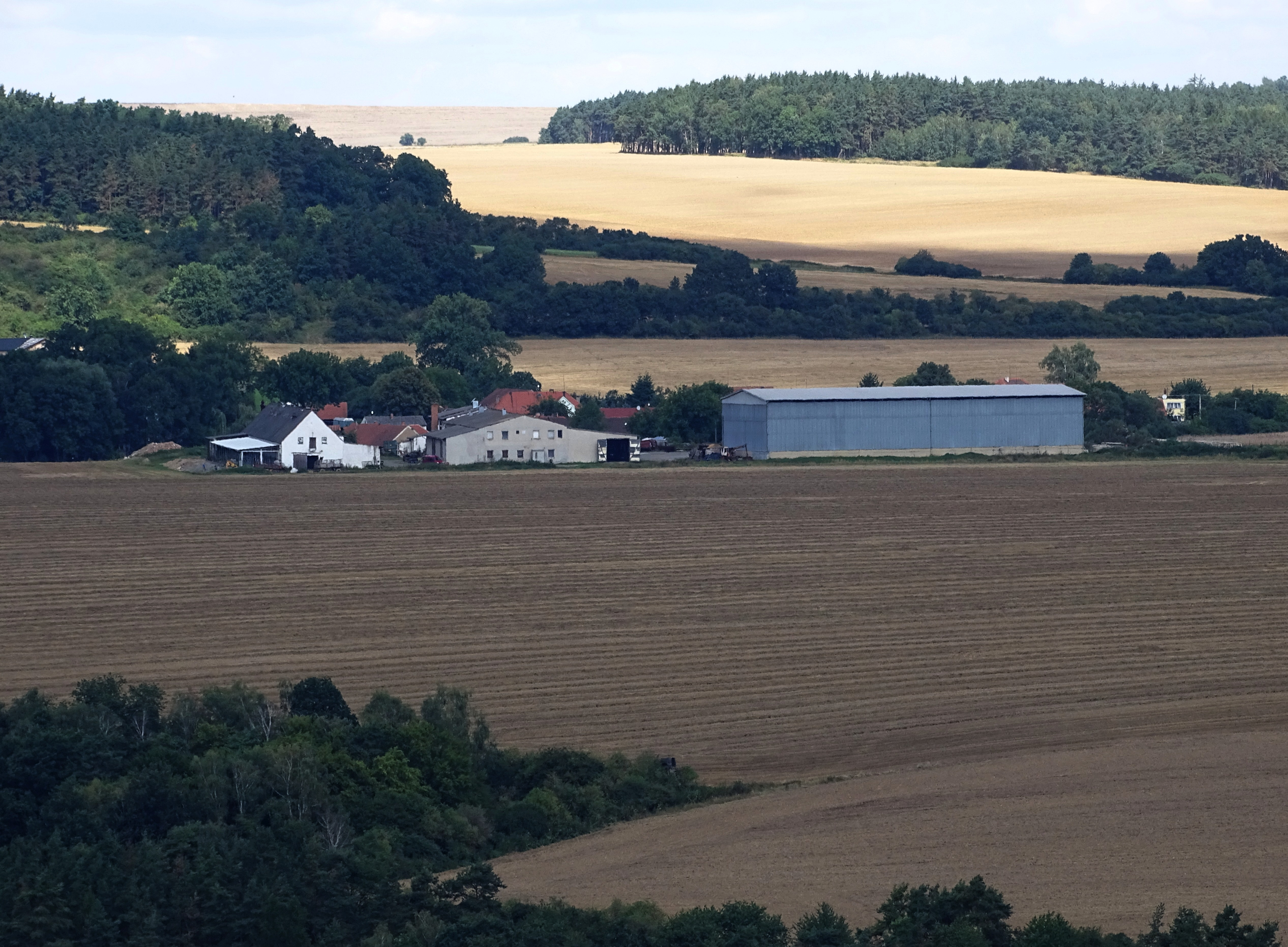 Hlince, Plzeň-North District, Plzeň Region, Czechia. Seen from Hřešihlavy.